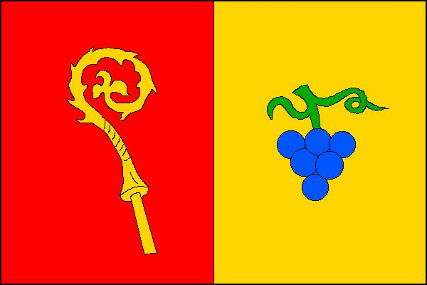 Municipal flag of Šlapanice town, Brno-Country District, Czech Republic.